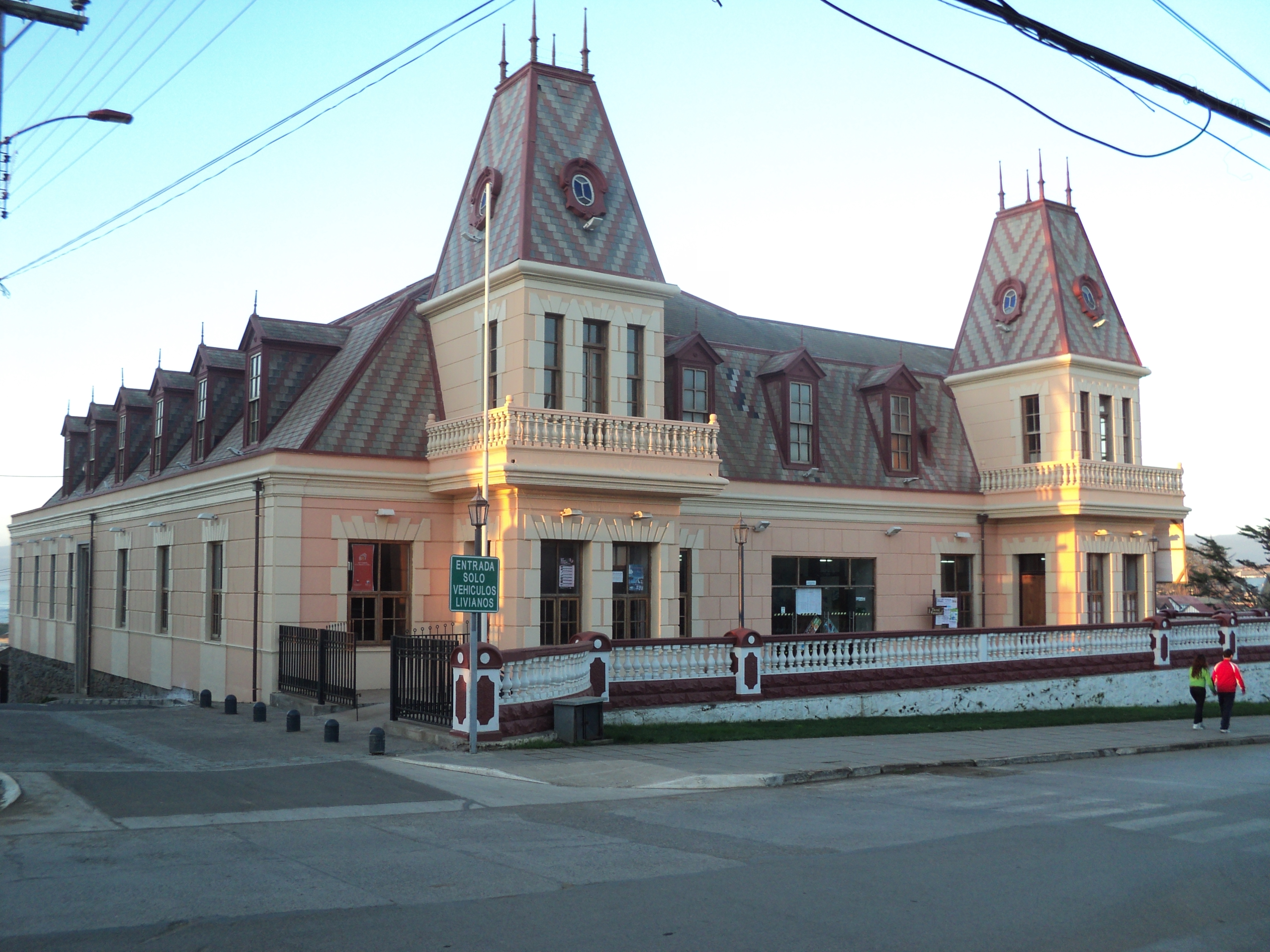 The Agustín Ross Cultural Center in June 2011.